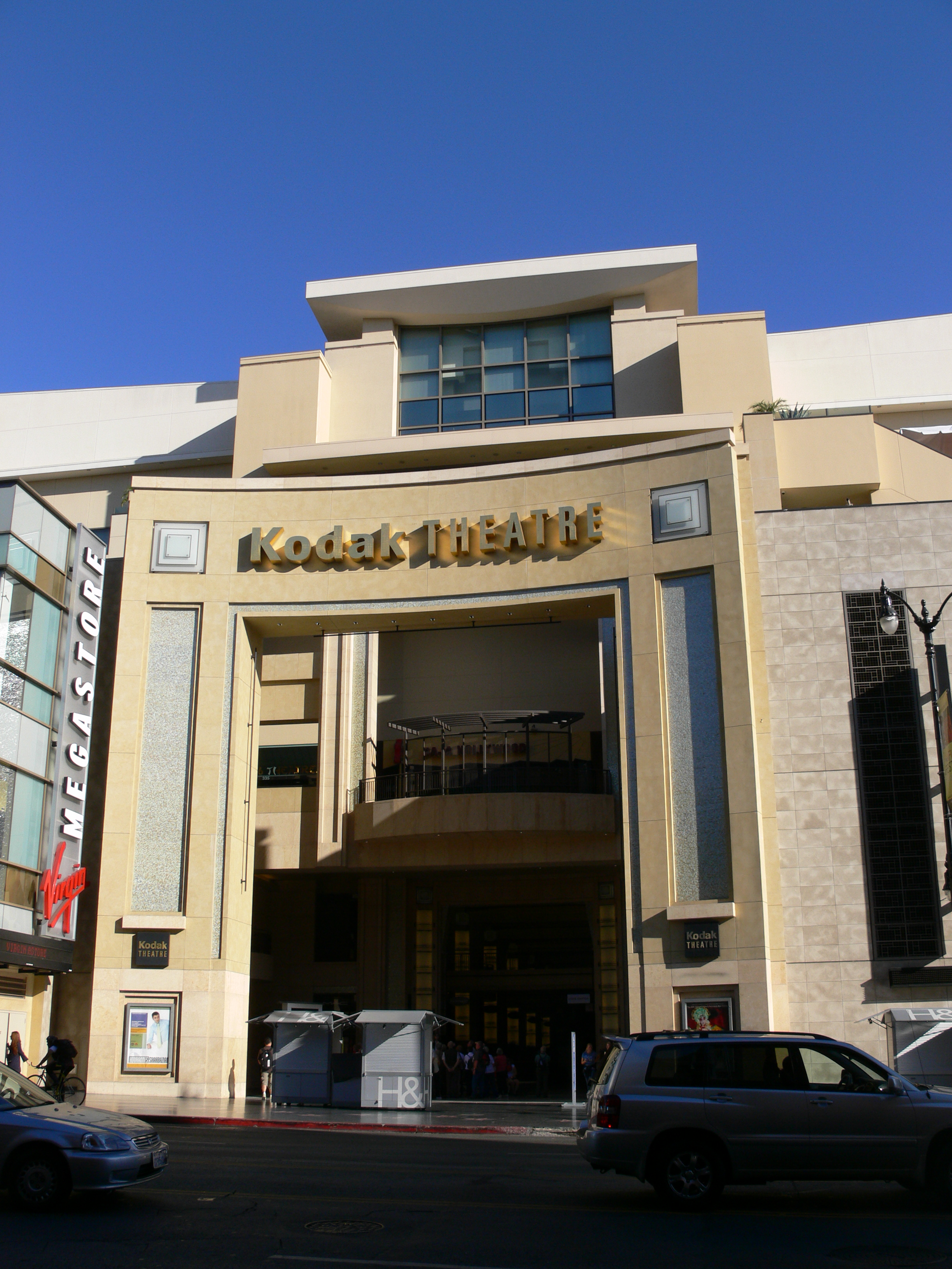 Kodak Theatre entertainment and shopping complex, Hollywood Boulevard, Los Angeles, California